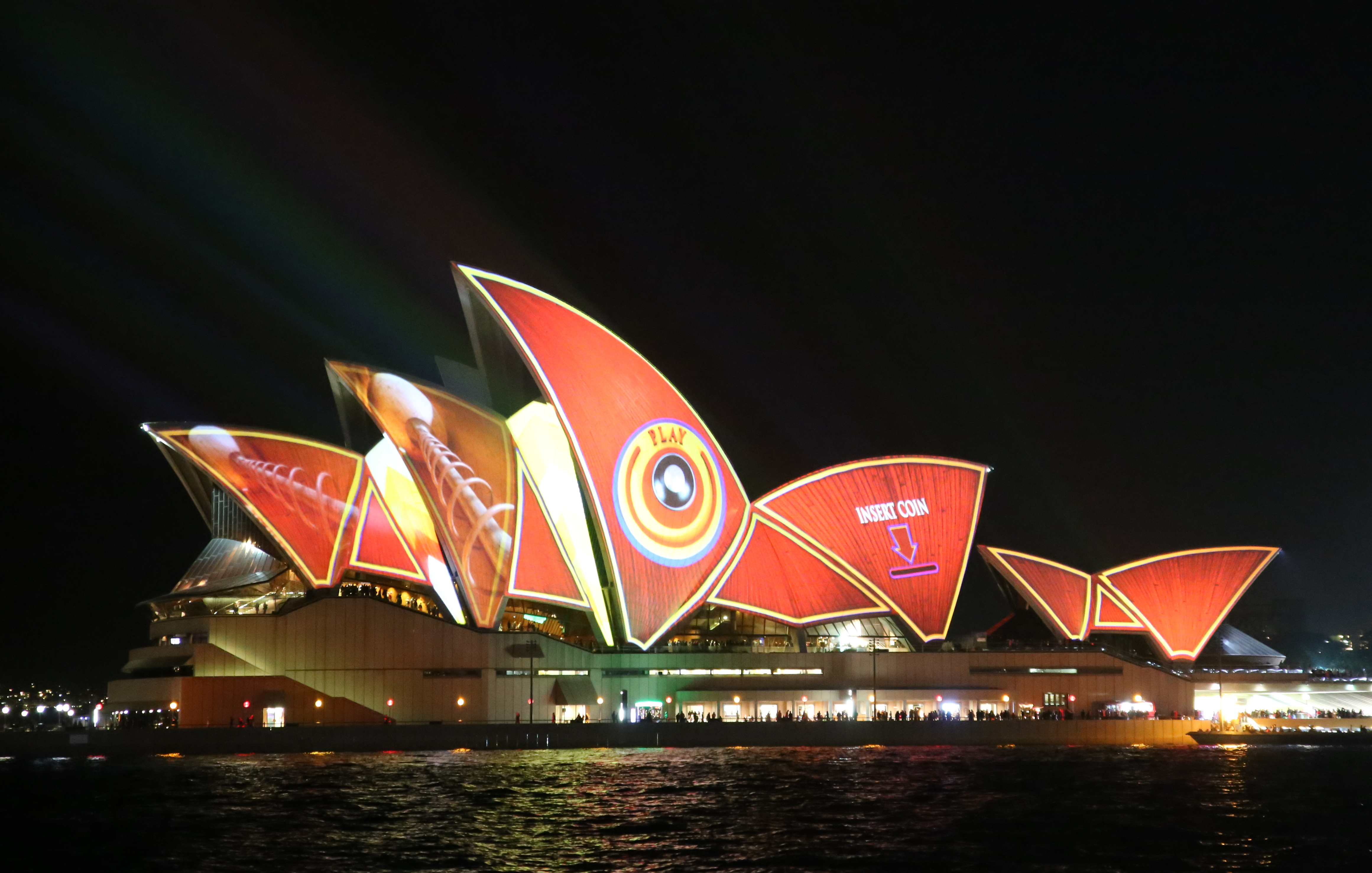 Vivid Sydney - Opera House sails Projection Mapping on the Sydney Opera House during Vivid Sydney 2013.